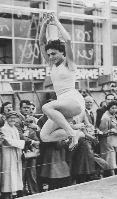 Galina Popova Russian Soviet Olympic athlete 1956 photo